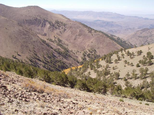 Limber Pine woodland, Toiyabe Range, central Nevada. Altitude about 9000 ft.